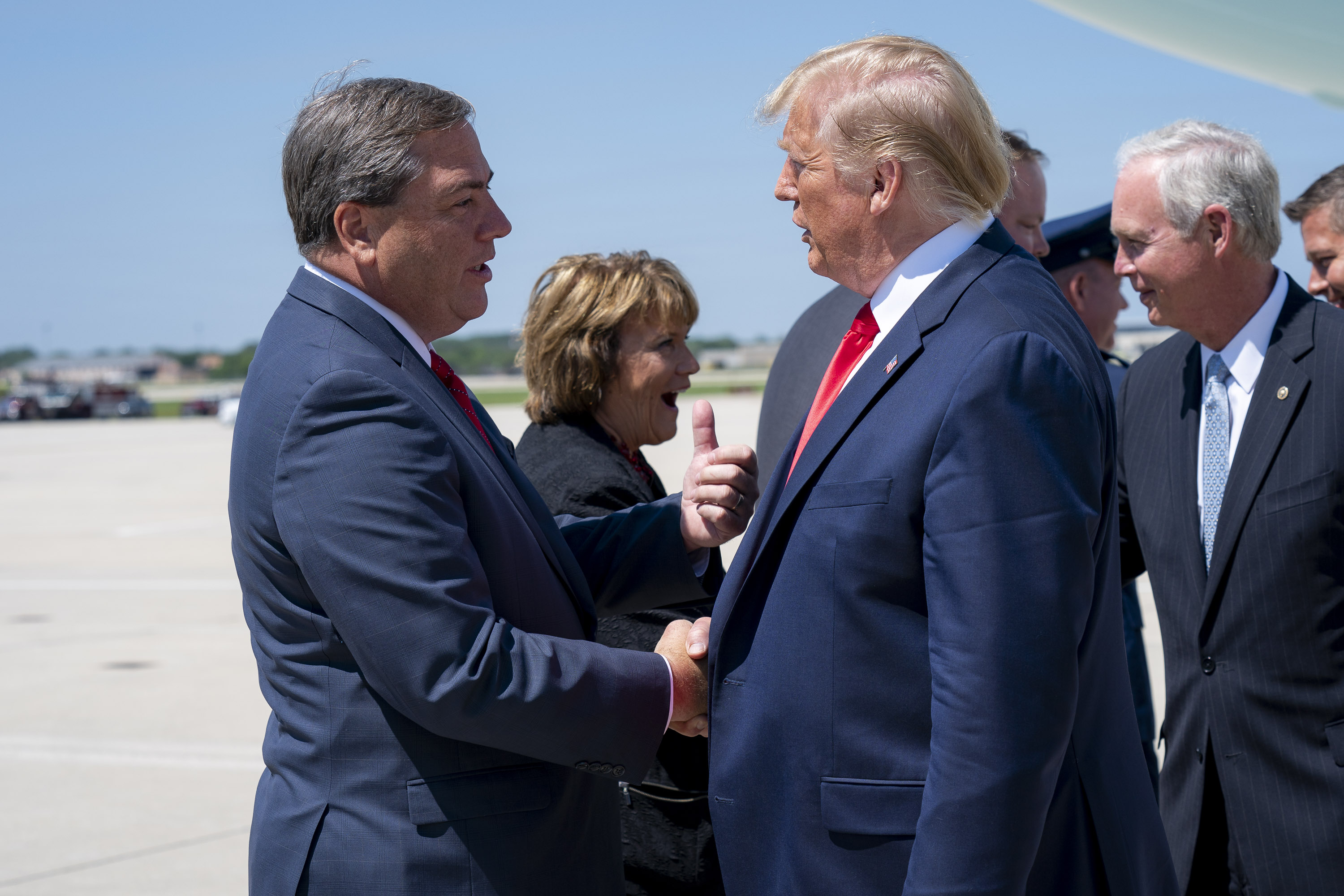 President Donald J. Trump is greeted by Paul Farrow, Executive of Waukesha County, Wisconsin, upon his arrival aboard Air Force One at General Mitchell International Airport Friday, July 12, 2019, in Milwaukee, Wisc. (Official White House Photo by Tia Dufour)